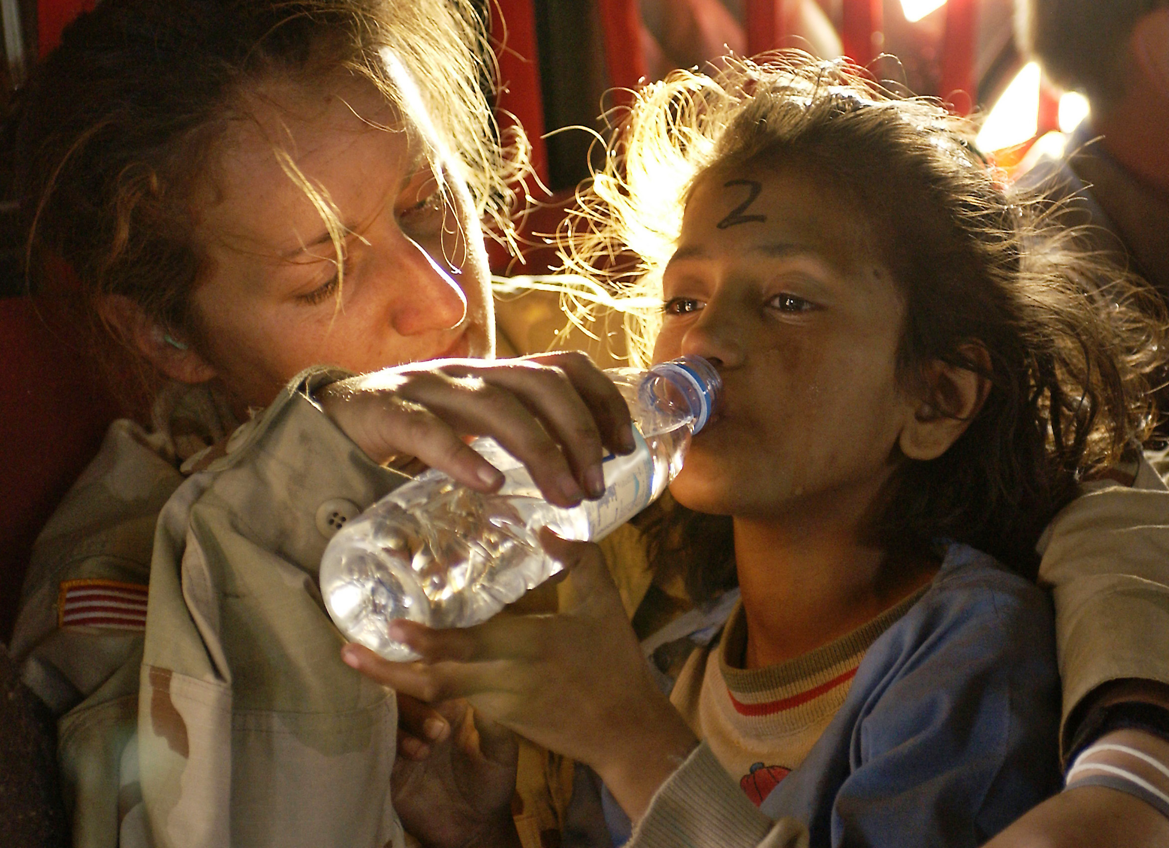 U.S. Army Sergeant Kornelia Rachwal gives a young Pakistani girl a drink of water as they are airlifted from Muzaffarabad to Islamabad, Pakistan, aboard a U.S. Army CH-47 Chinook helicopter on the 19 October 2005.